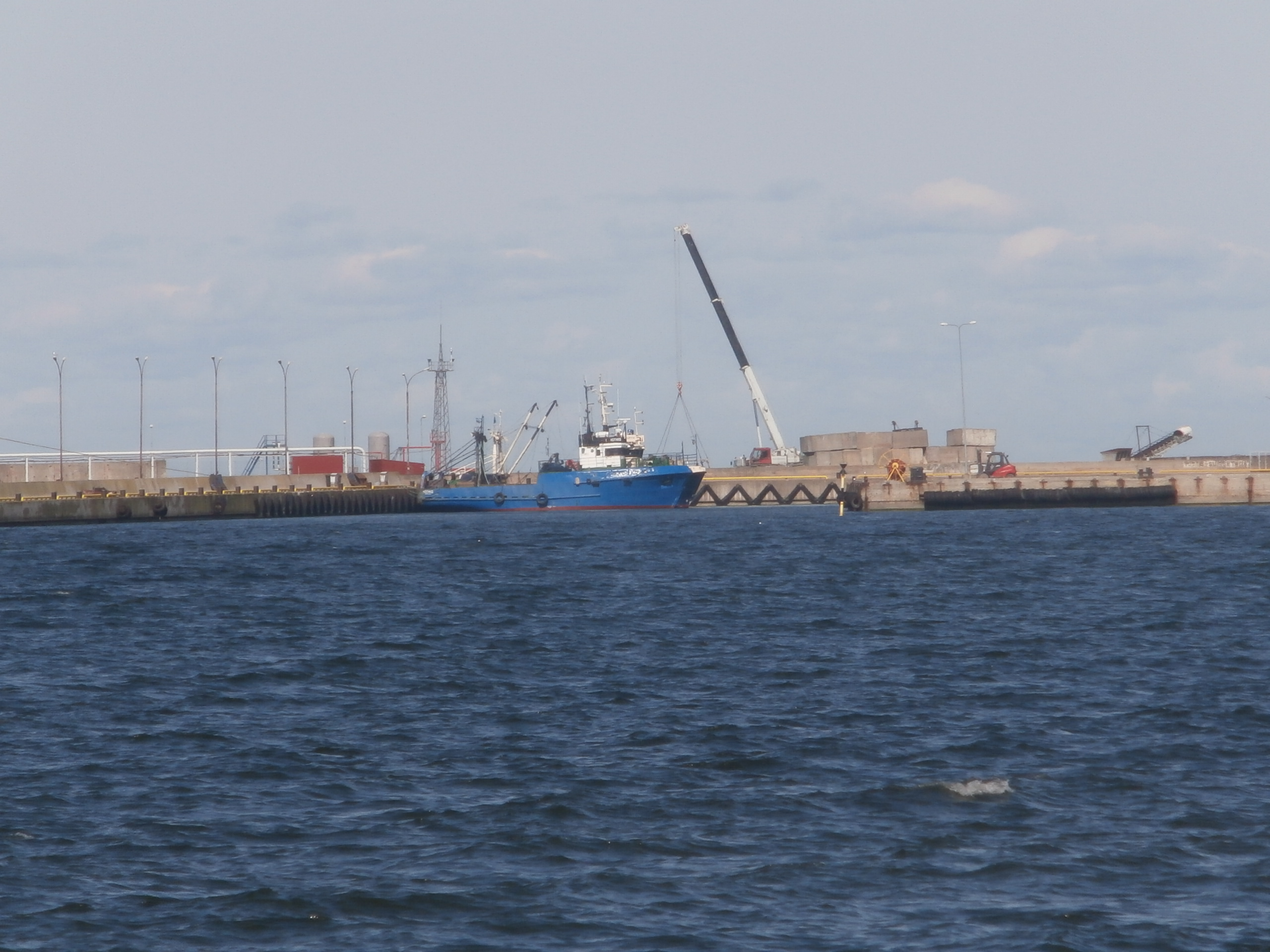 EK-0903 Kotkas and EK-9222 Narvia in Port of Miiduranna